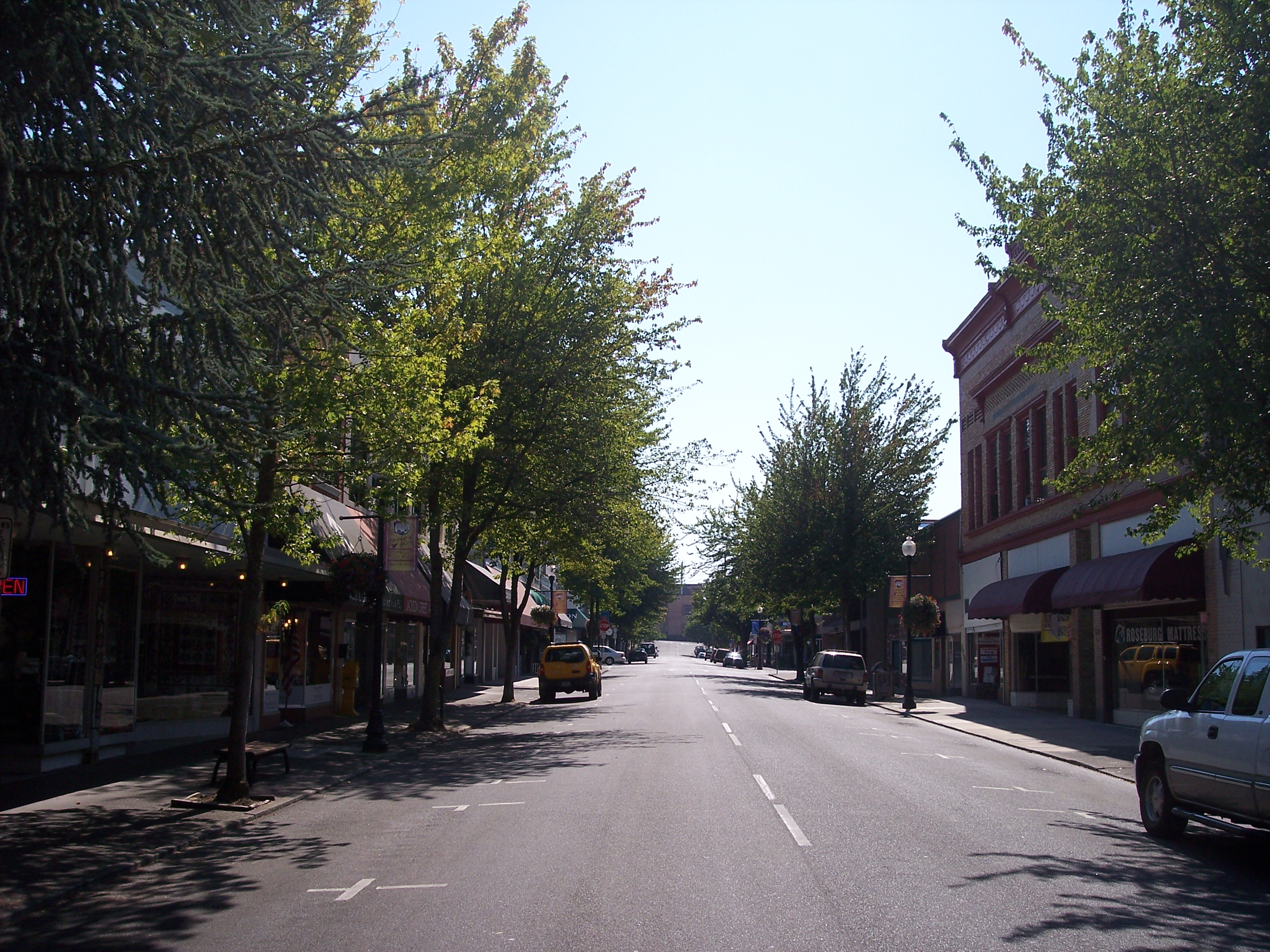 SE Jackson Street (Roseburg, Oregon)